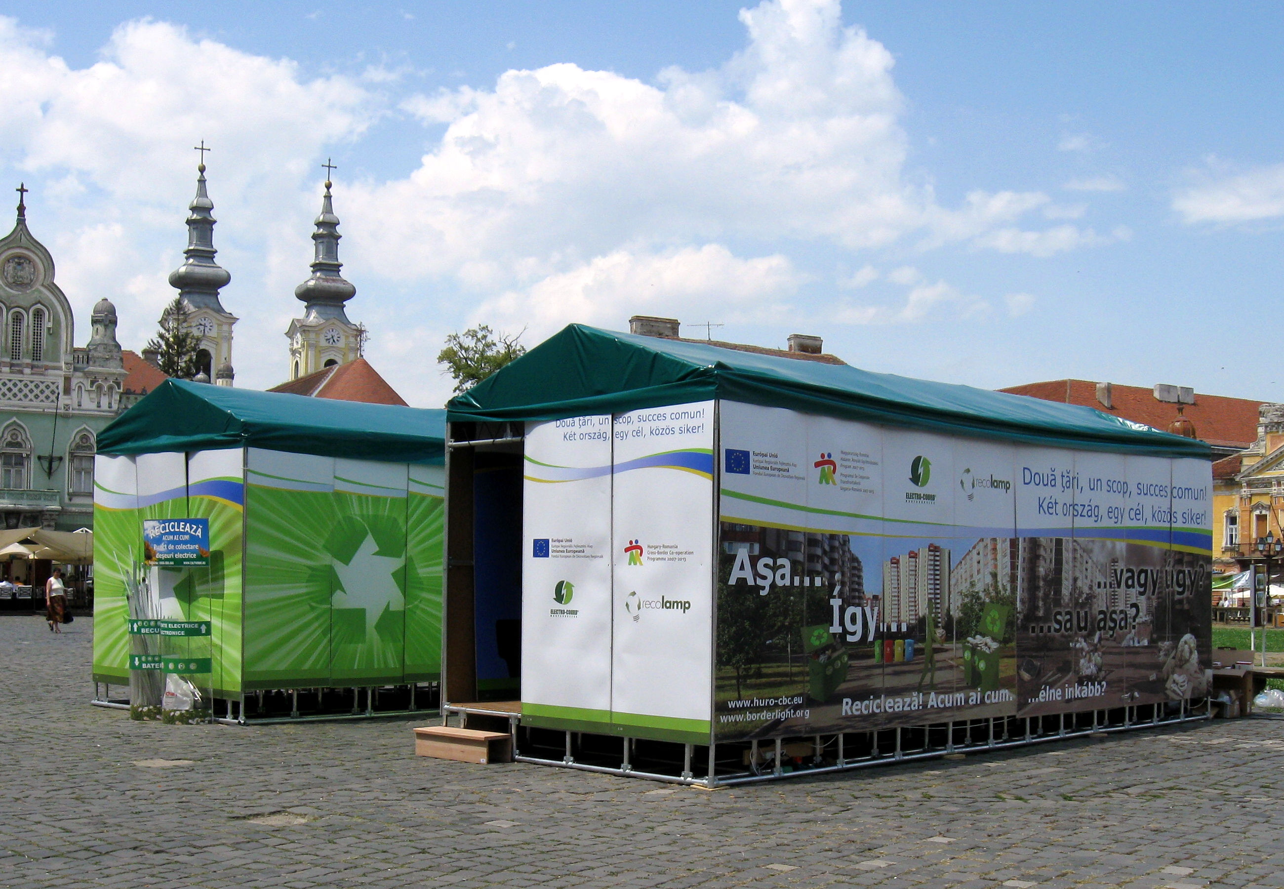 Romanian-Hungarian project for electrical and electronic waste recycling in Timisoara.